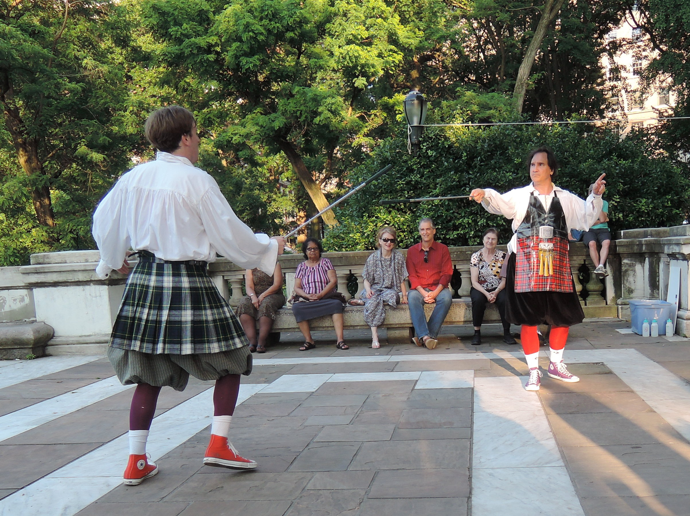 Duel with golf clubs in The Complete Works of William Shakespeare (Abridged).